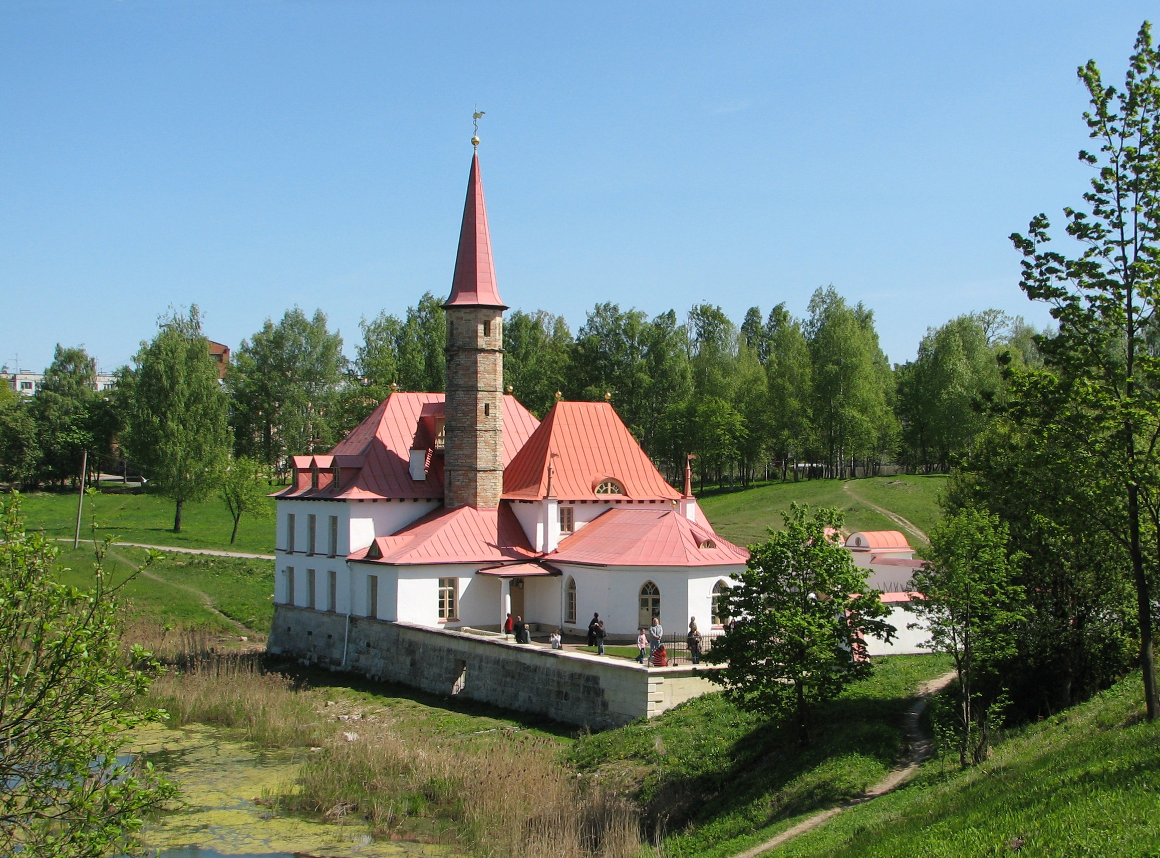 View of Priory Palace (Gatchina)